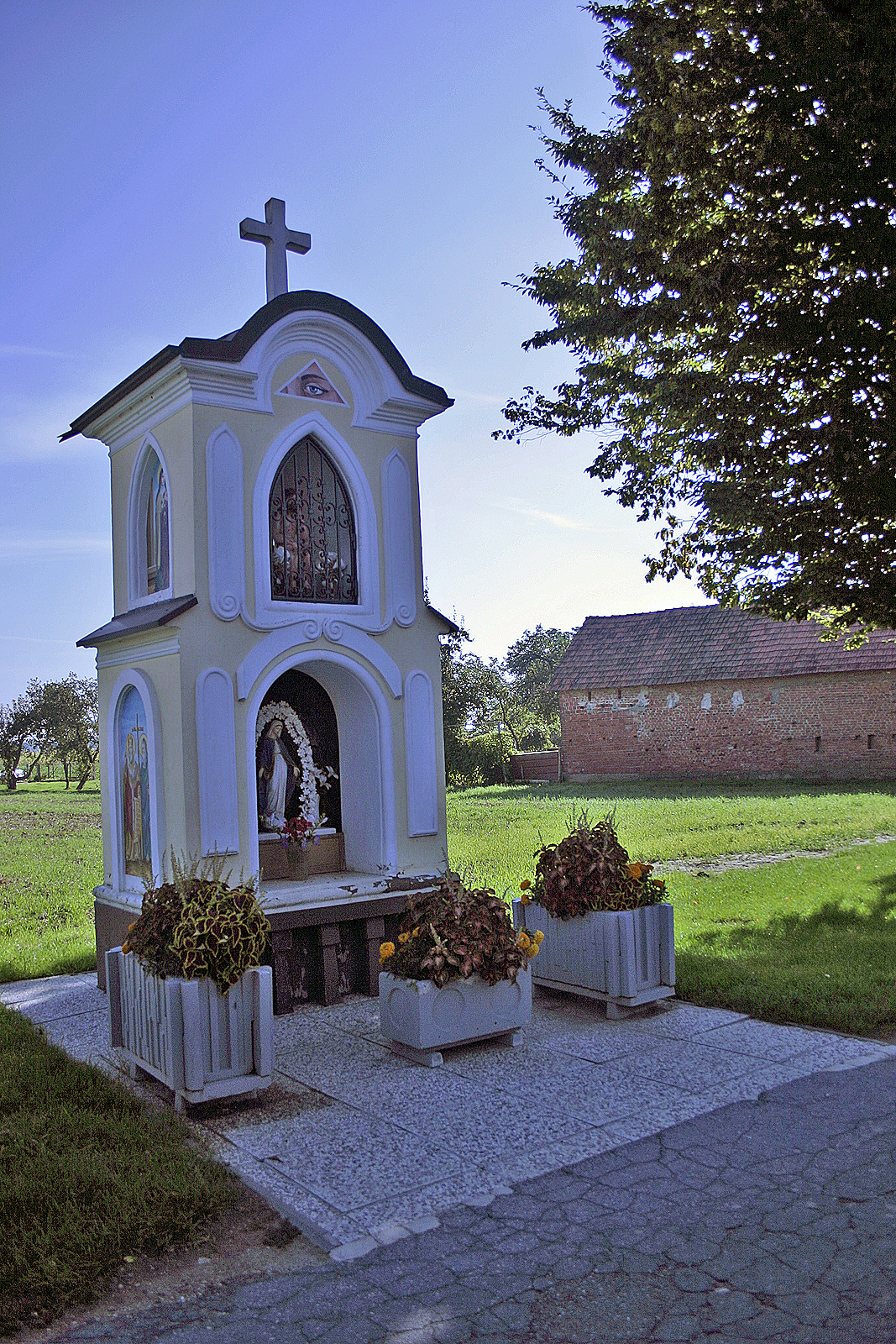 Melinci Slovenia